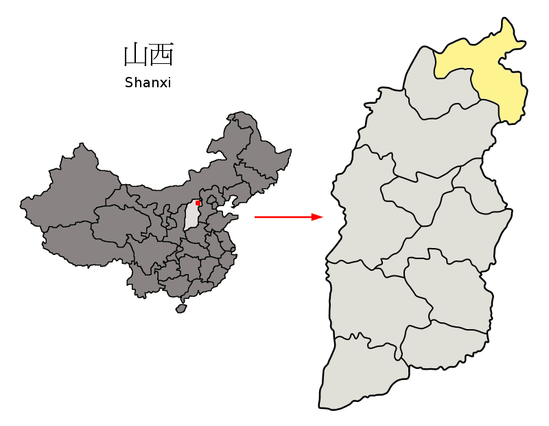 Location of Datong Prefecture (yellow) within Shanxi Province of China Map drawn in december 2007 using various sources, mainly : Shanxi Province administrative regions GIS data: 1:1M, County level, 1990 Shanxi Counties map from